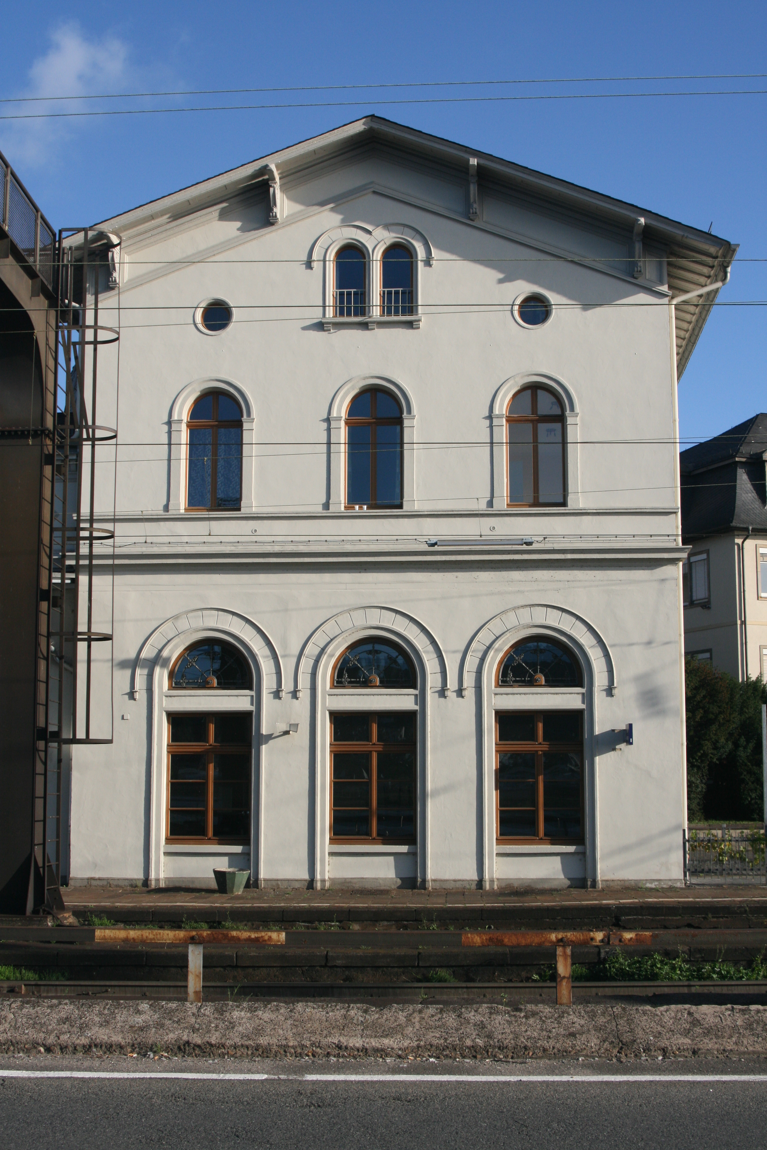 Train station of Rüdesheim am Rhein, Germany. 1854-1856 by Heinrich Velde.